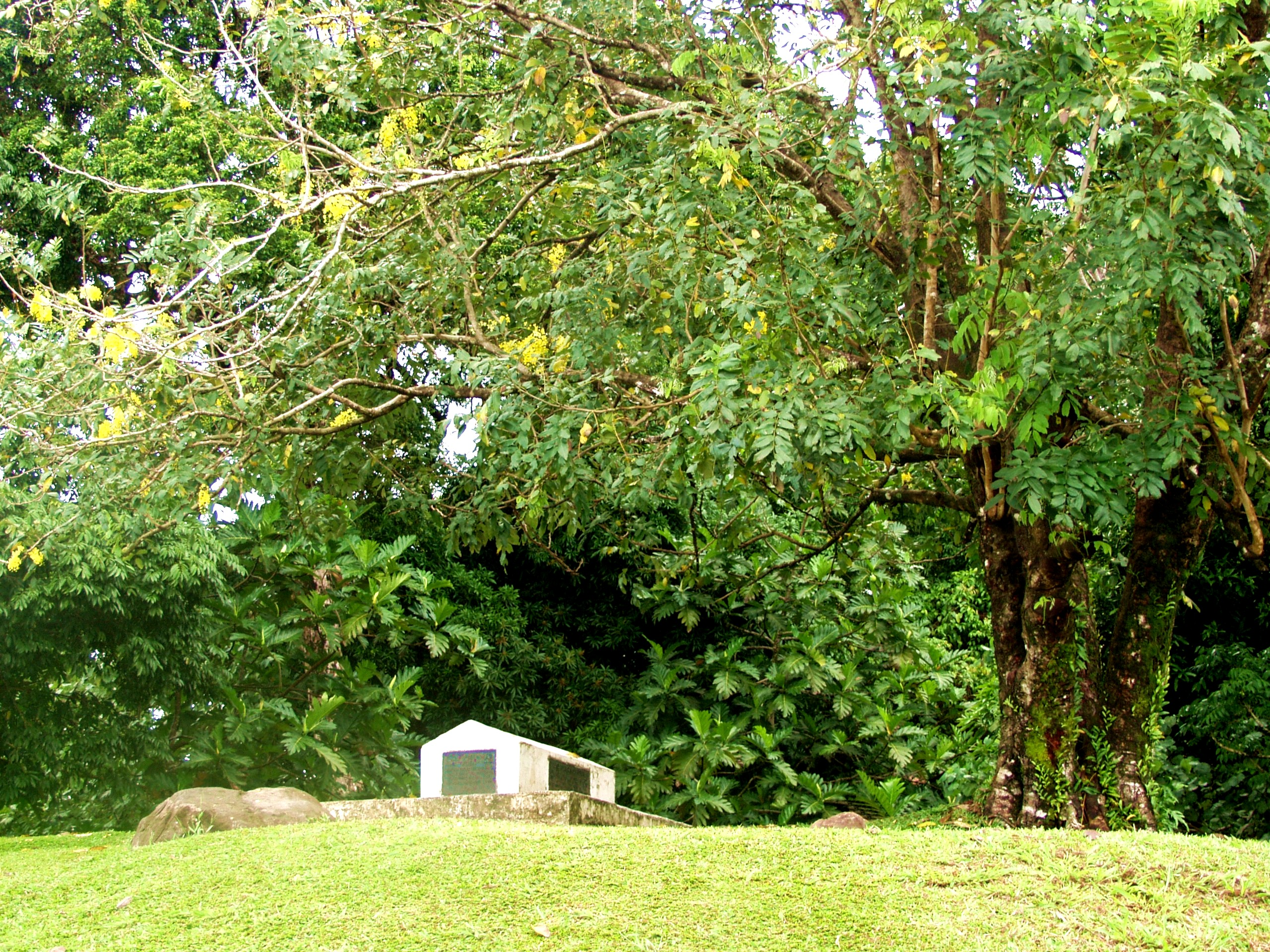 RLS Tomb on MtVaea, Samoa.